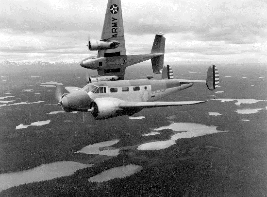 Beechcraft F-2 Expeditor reconnaissance aircraft near Ninilchick, Alaska, June 5, 1941 (3:35PM).